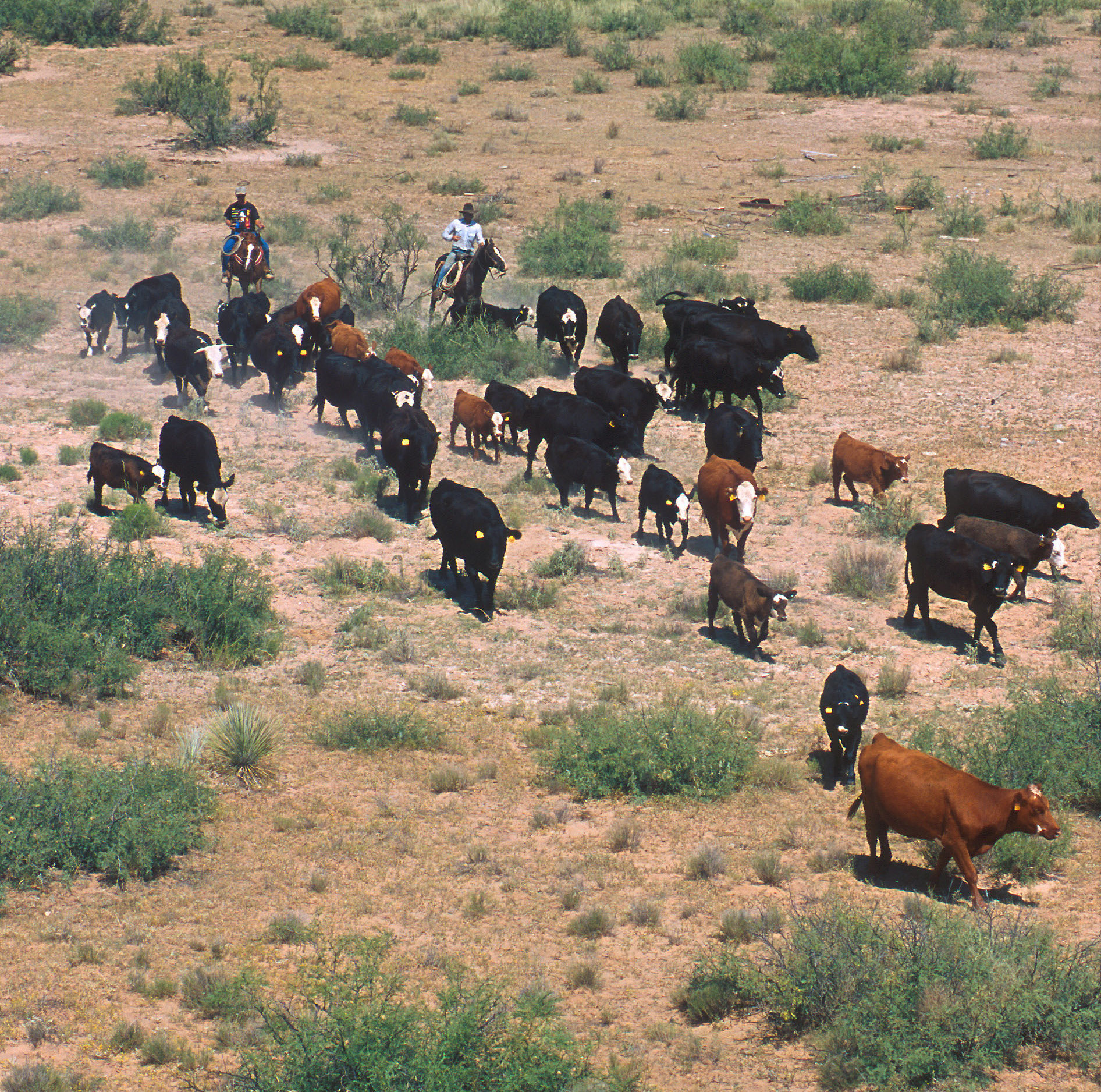 On the 300 square mile Jornada Experimental Range near Las Cruces, New Mexico, technicians Rob Dunlap (left) and John Smith round up cattle. High-tech equipment may make roundups easier in the future. USDA Photo by Scott Bauer. Image Number K9102-6.